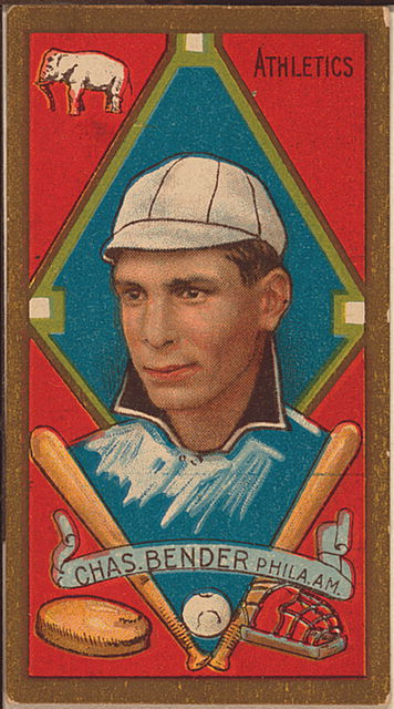 T205 Chief Bender. This image is in the public domain.